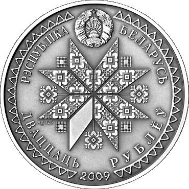 "Spasy", Silver commemorative coins, denomination: 20 rubles